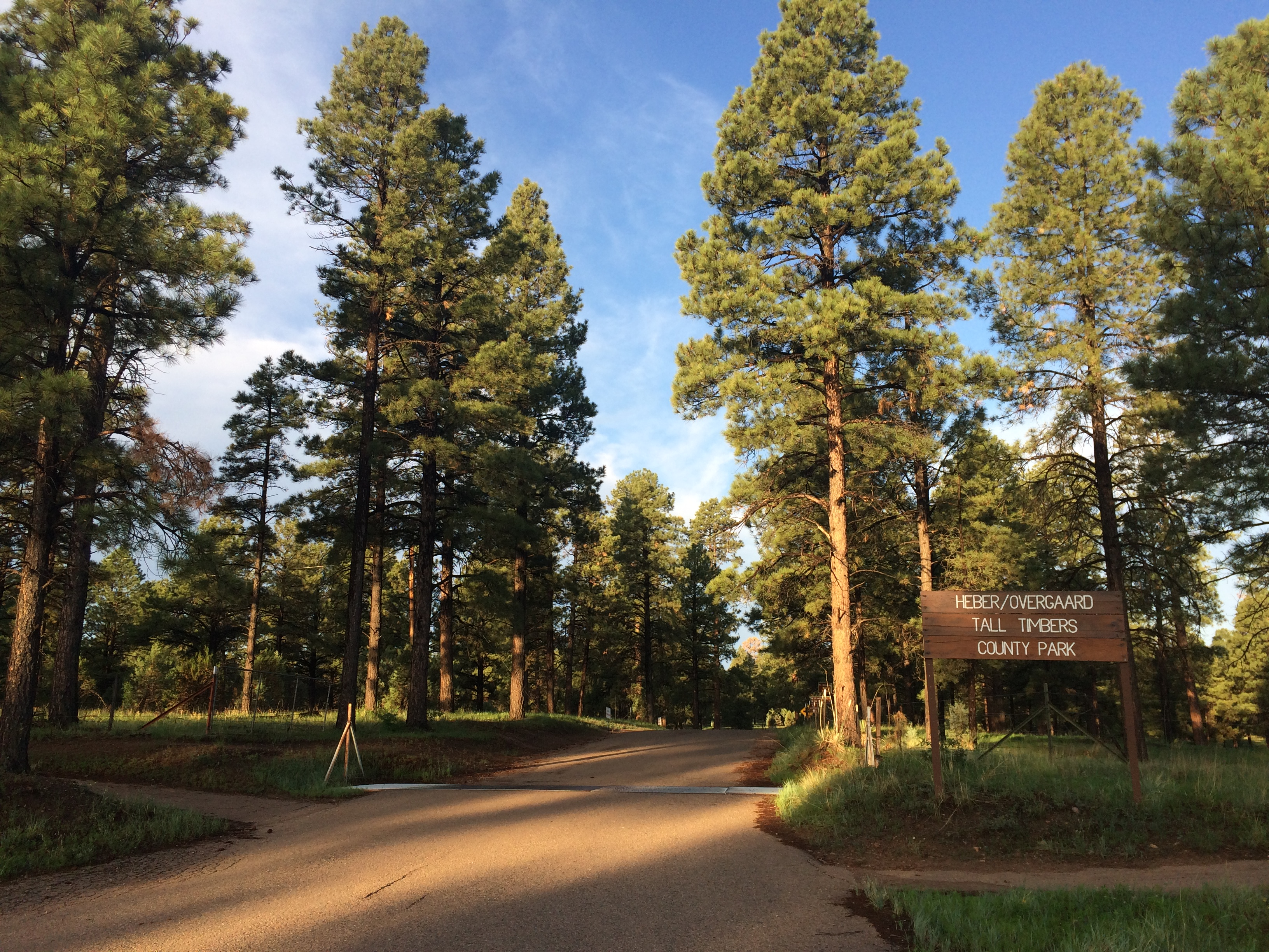 South Entrance to Tall Timbers County Park in Heber-Overgaard Arizona.